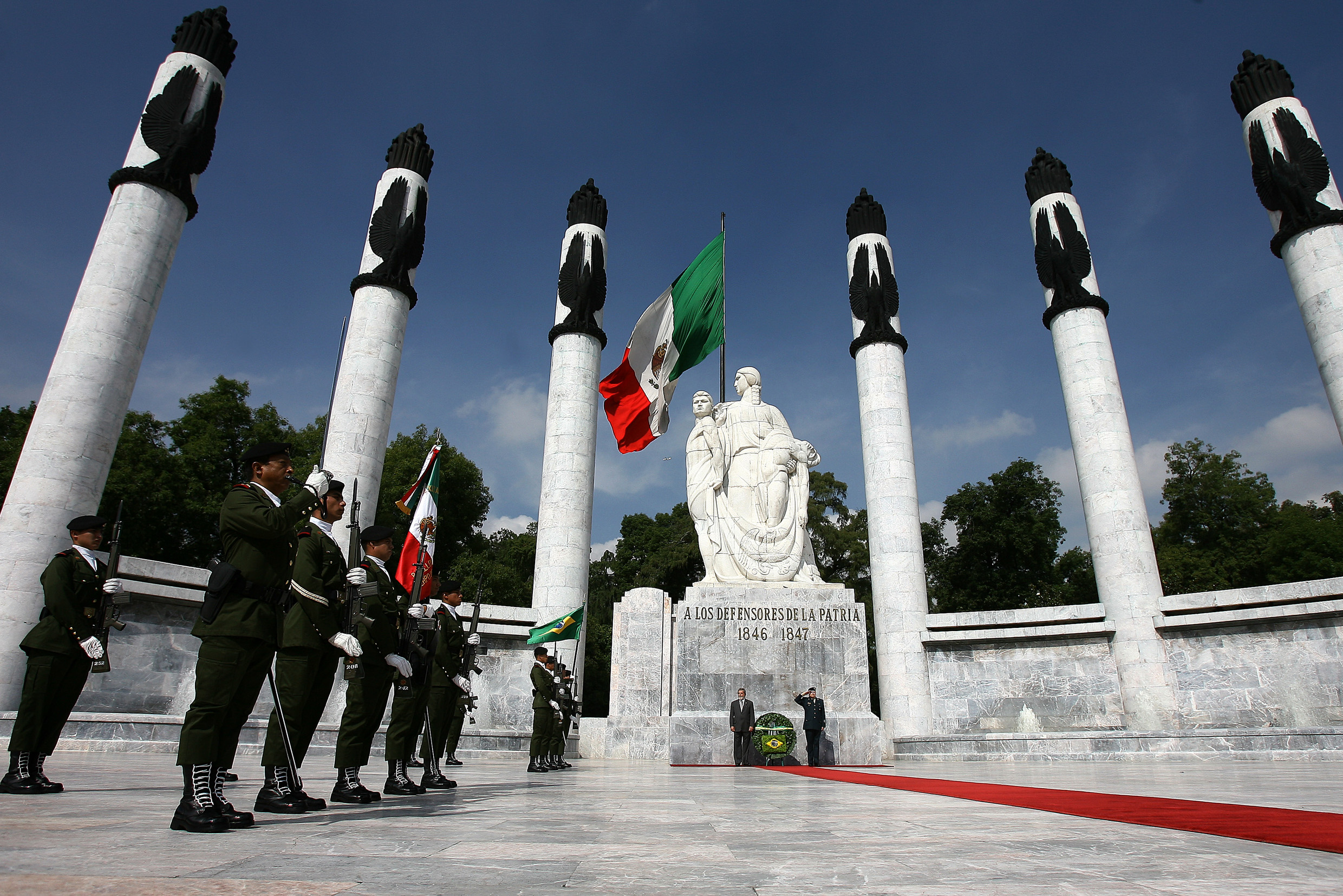 Brazilian president Luiz Inácio Lula da Silva at the Heroic Cadets Memorial in Chapultepec Park, Mexico City.